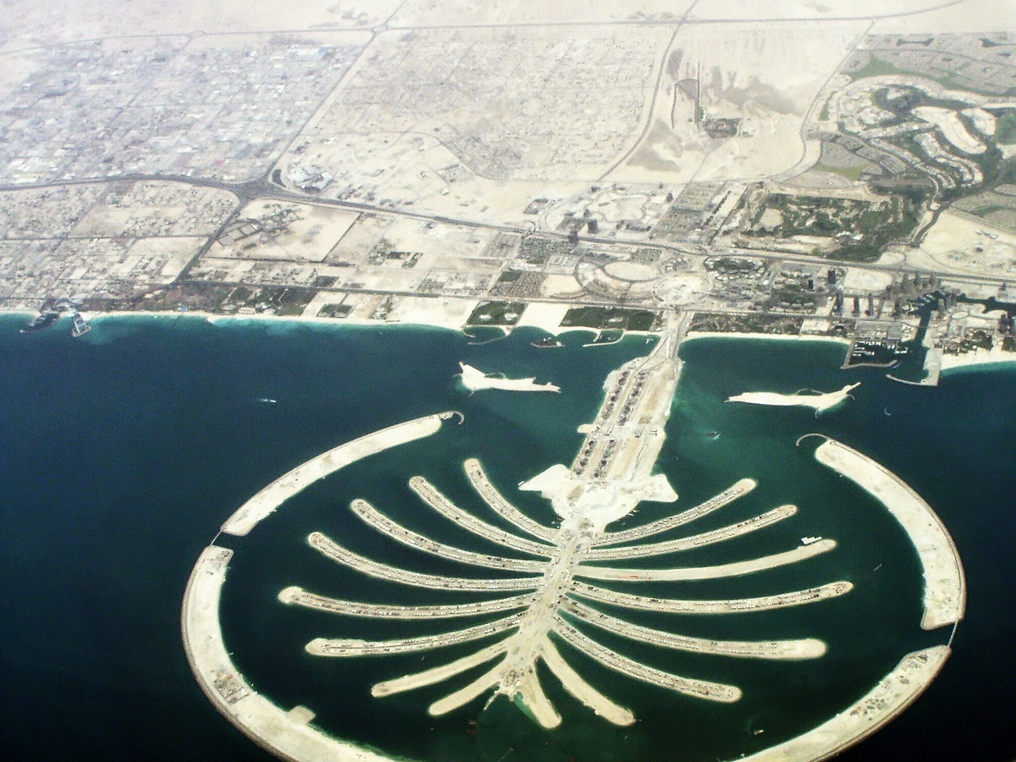 Palm Islands in Dubai, United Arab Emirates - view from plane